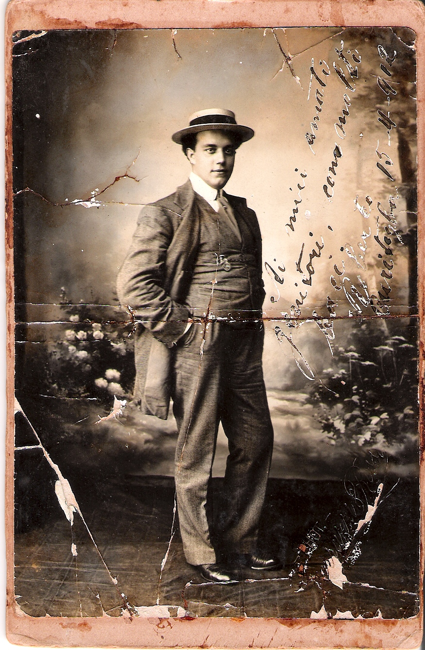 Roberto Viglione (Buenos Aires, April 15, 1912)